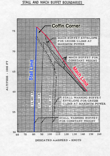 Graph of Speed vs. Altitude for U-2 high-altitude airplane, region depicting Coffin Corner. Stall and Mach limits for one particular gross weight clarified in color. Note that the operational envelope gets narrower if the plane is more heavily loaded.